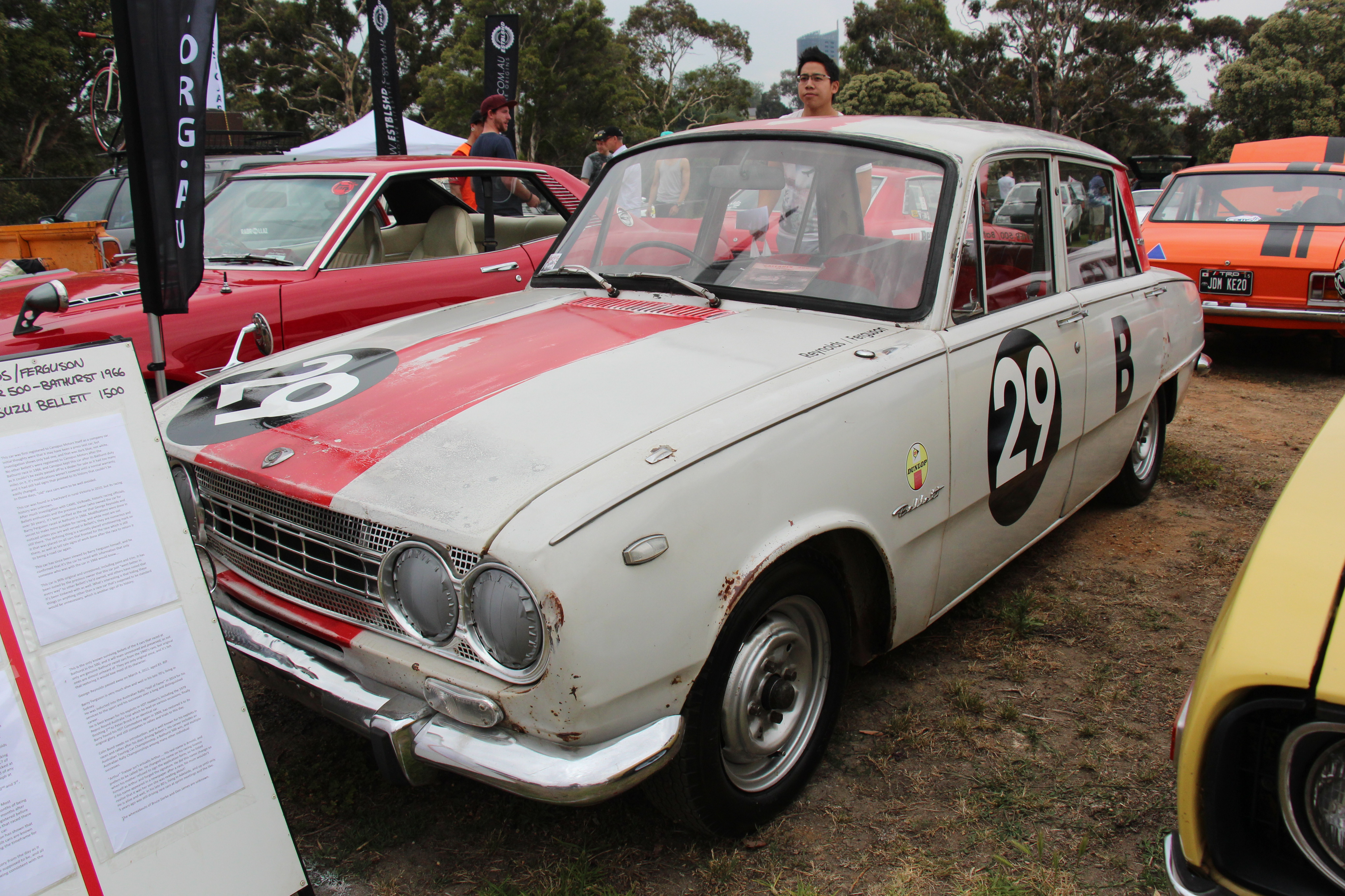 The Bellett was built from 1963-73, it replaced the Hillman Minx, built under a license agreement with the Rootes Group, and in turn was replaced by the Isuzu or Holden Gemini. It was available in 2 or 4 door sedan and coupe. To start with it got a 1500cc 4 cyl The Bellett GTwas launched in 1964, a two-door coupé. In 1966, the front fascia was facelifted and the GT got a 1600cc SOHC engine A hotter GTR was added in 1969 In 1970, the GT and GTR got an 1800cc engine In 1971 the Bellett range underwent a second face lift This Bellett sedan competed in the 1966 Gallaher 500 Race at Bathurst, driven by George Reynolds and Barry Ferguson, they finished 21st, but 5th in Class B, $1800 to $2000